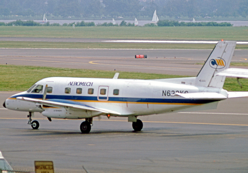 Embraer EMB 110 N620KC of Aeromech Airlines at Washington National airport in 1982